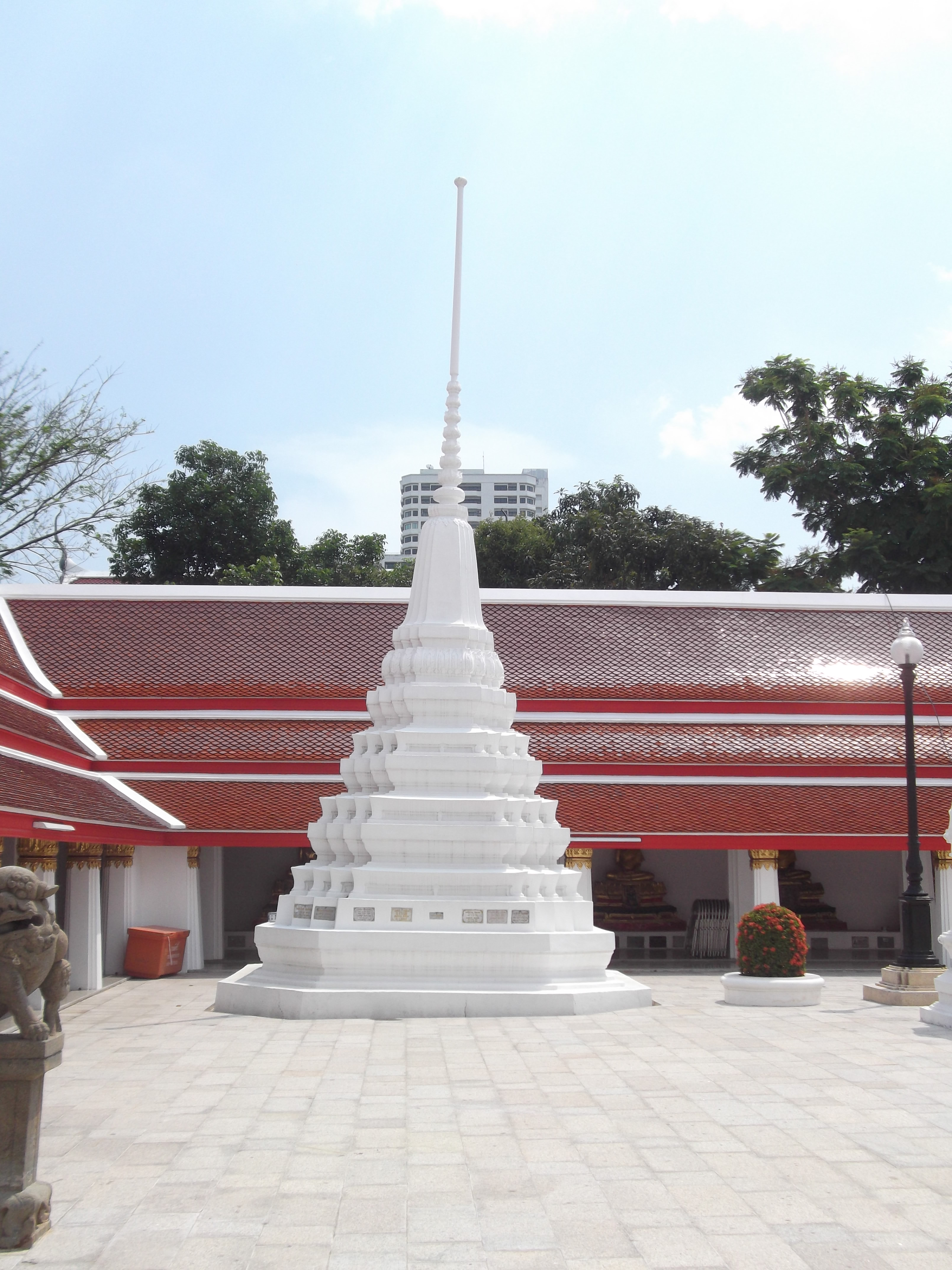 วัดภคินีนาถ